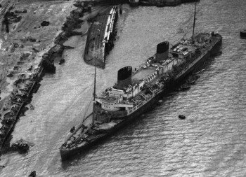 SS Europa sank after rammed into the capsized SS Paris at Le Havre.